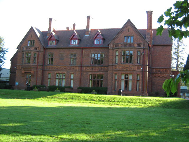 Mowden Hall Darlington Built in 1935 and occupied as a private school being evacuated at the beginning of WW2, now business premises.